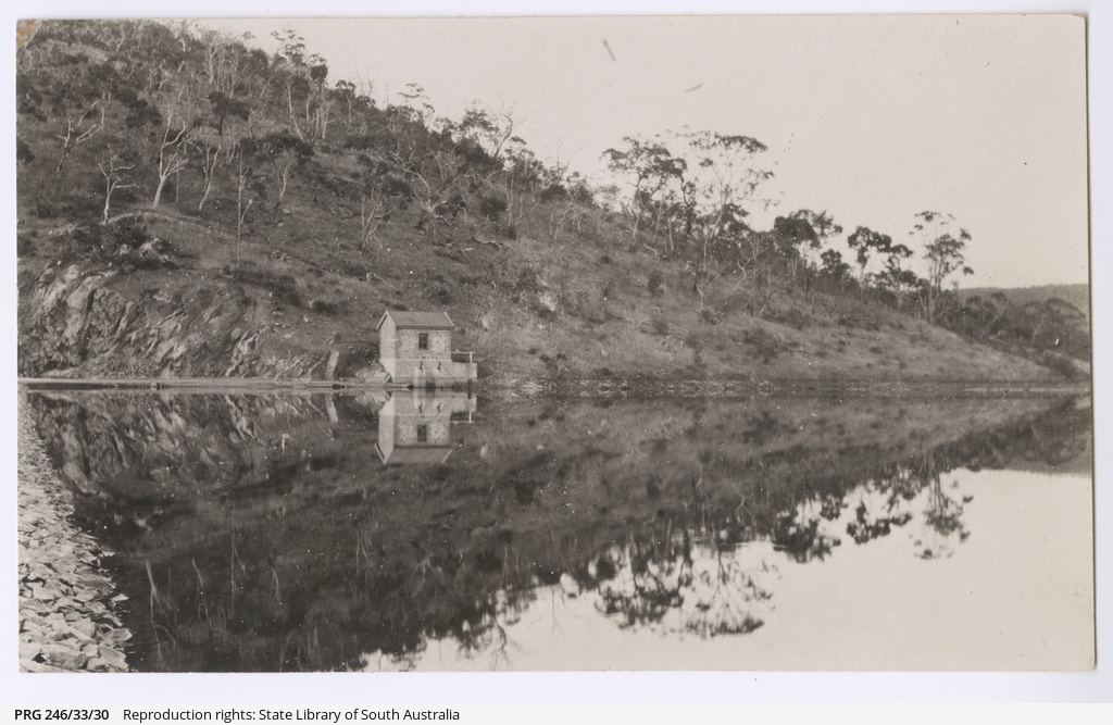 It is a photograph which was taken after the completion of the construction works and shows part of the dam wall and a building associated with the reservoir's function